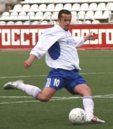 Aleksei Mikhailov in action for FC Maccabi Moscow